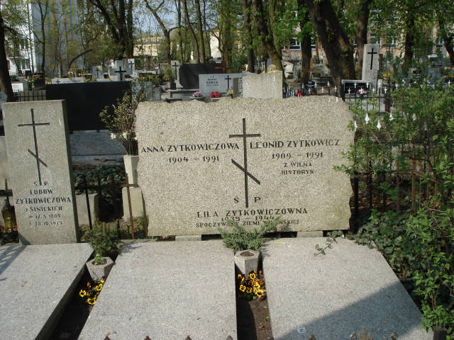 Gravestone Prof. Leonid Żytkowicz at the St. George Cemetery in Toruń